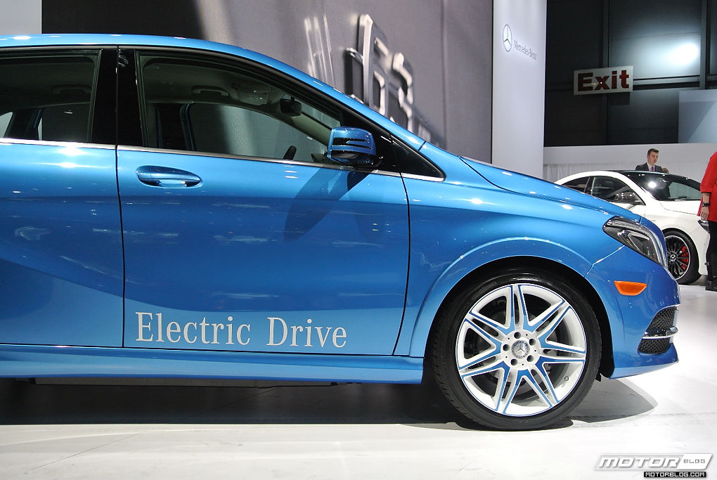 NYIAS 2013 | Mercedes B-Klasse B-class Electric EV @ New York Autoshow _____________ Please feel free to use this image for FREE under the Creative Commons (CC) licence. However, if you use the image, pls set a backlink to and give credit as following: "Image: ". Thanks For highres images or any other inquiries pls contact mailto: .